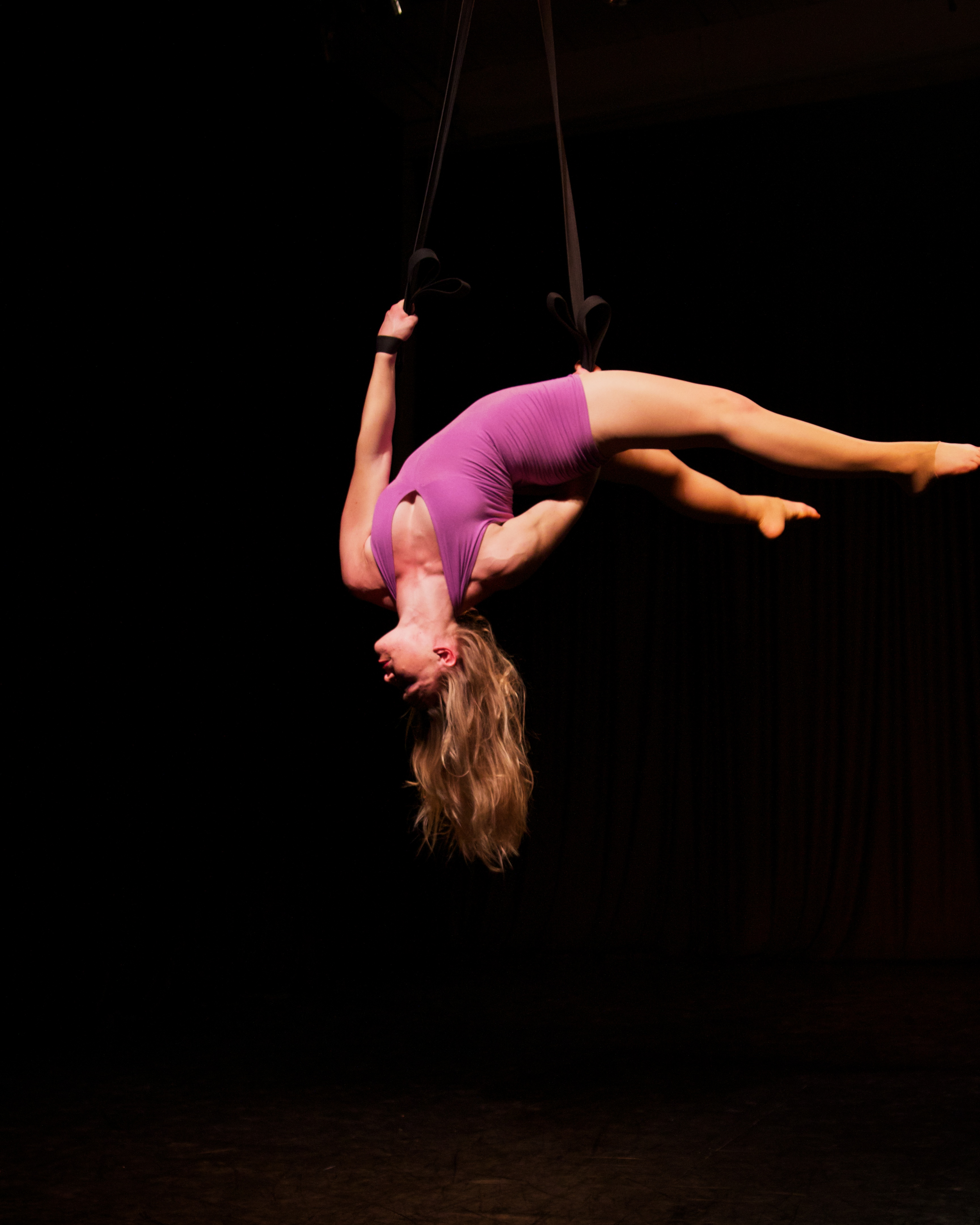 Leah Leor performing on aerial straps.